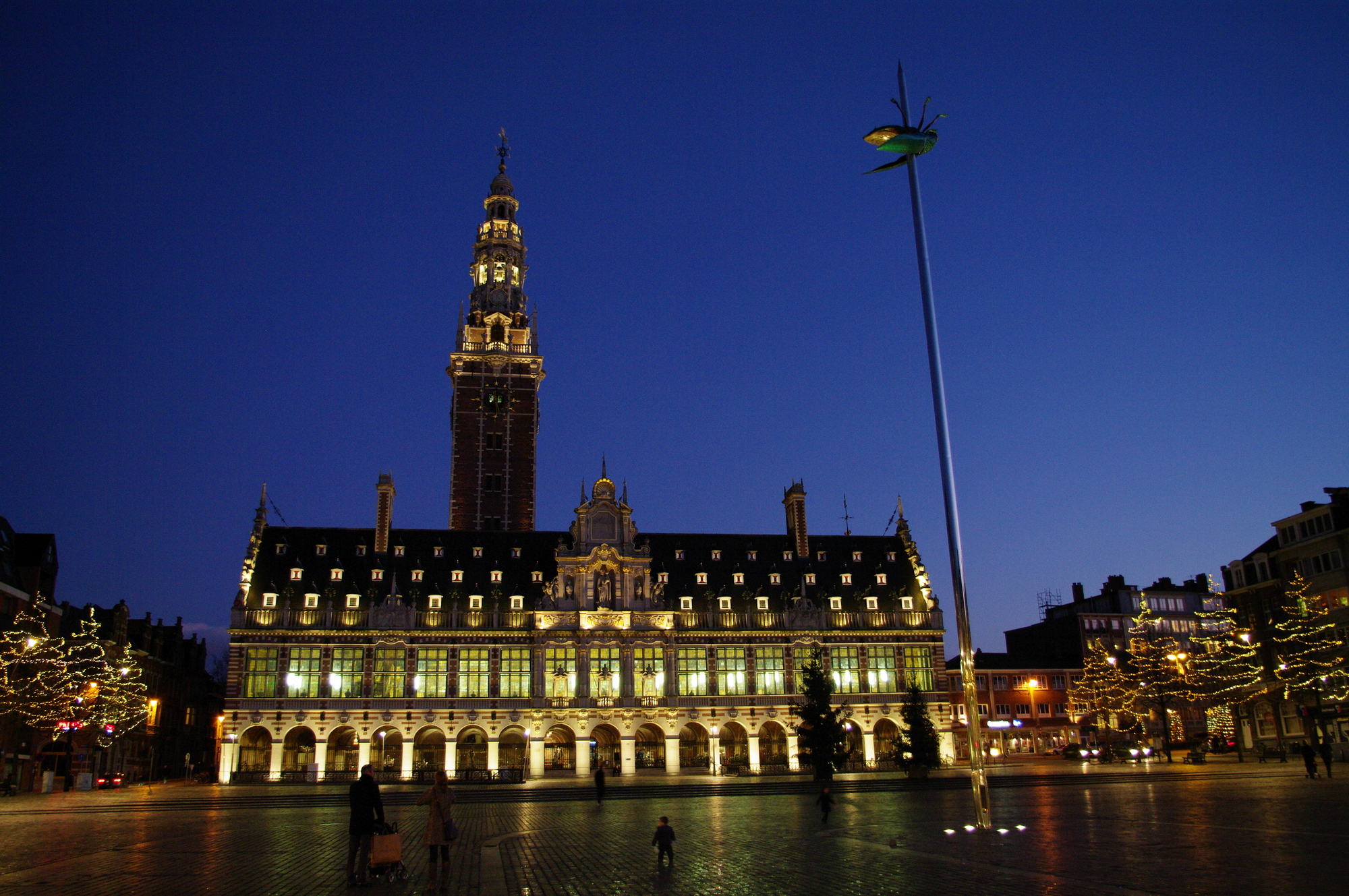 The Library of KU Leuven.